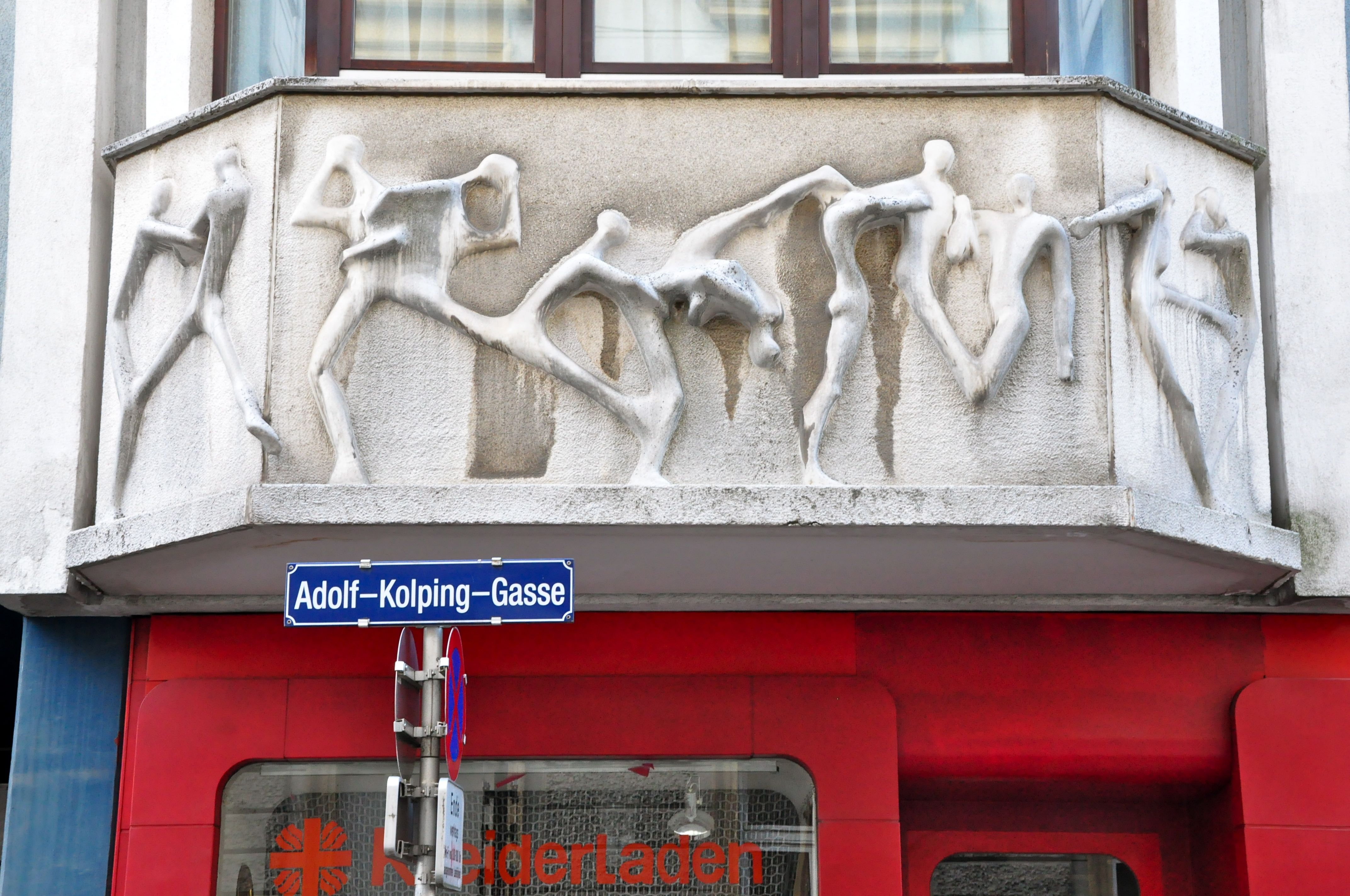 Façade, created by the sculptor Jan Milan Krkoška for the architect Zeytinoglu and the Caritas on the Adolf-Kolping-Gasse #6 in the inner city of the capital Klagenfurt, municipality Klagenfurt am Wörthersee, Carinthia, Austria